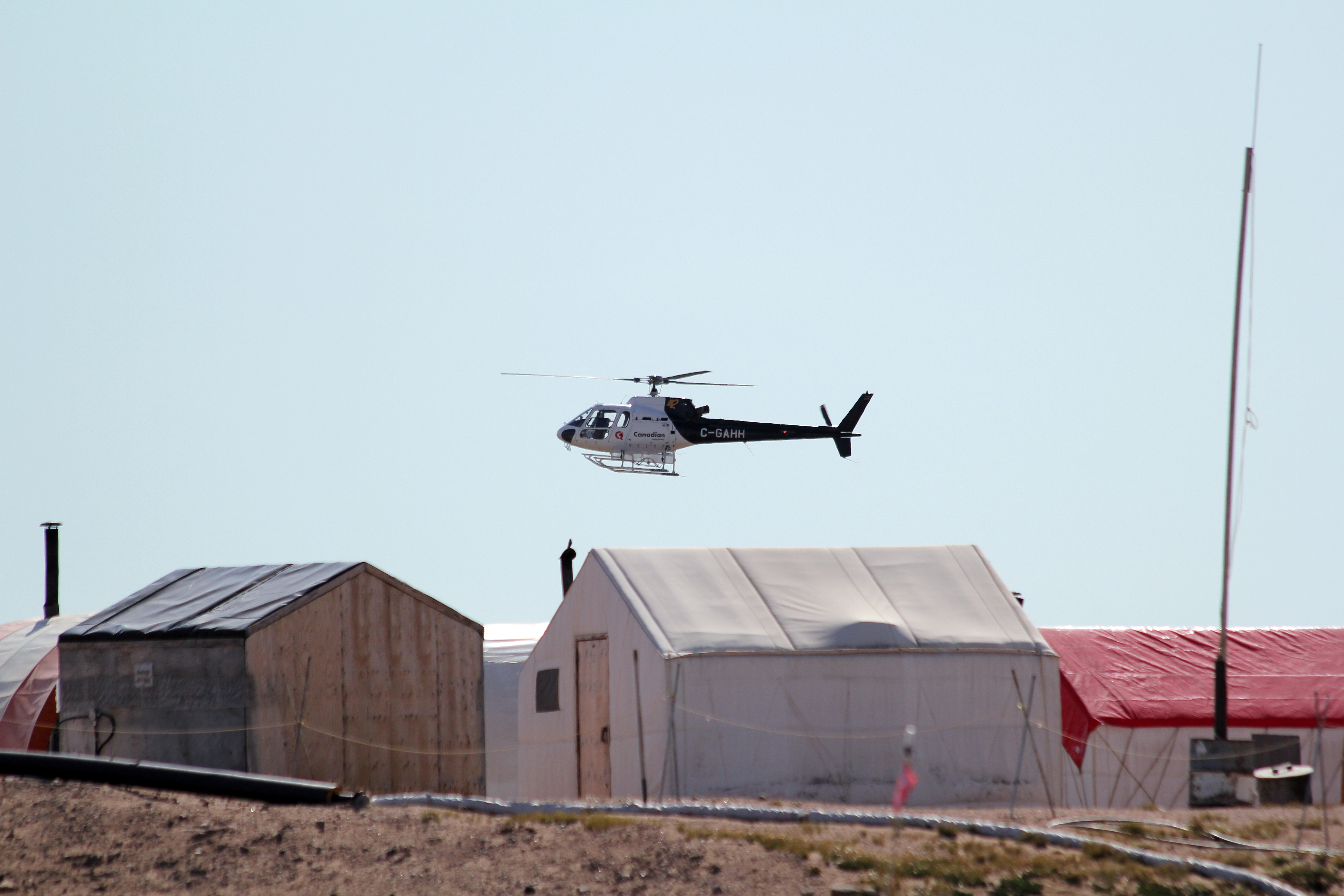 This is the temporary camp of the new iron ore mine